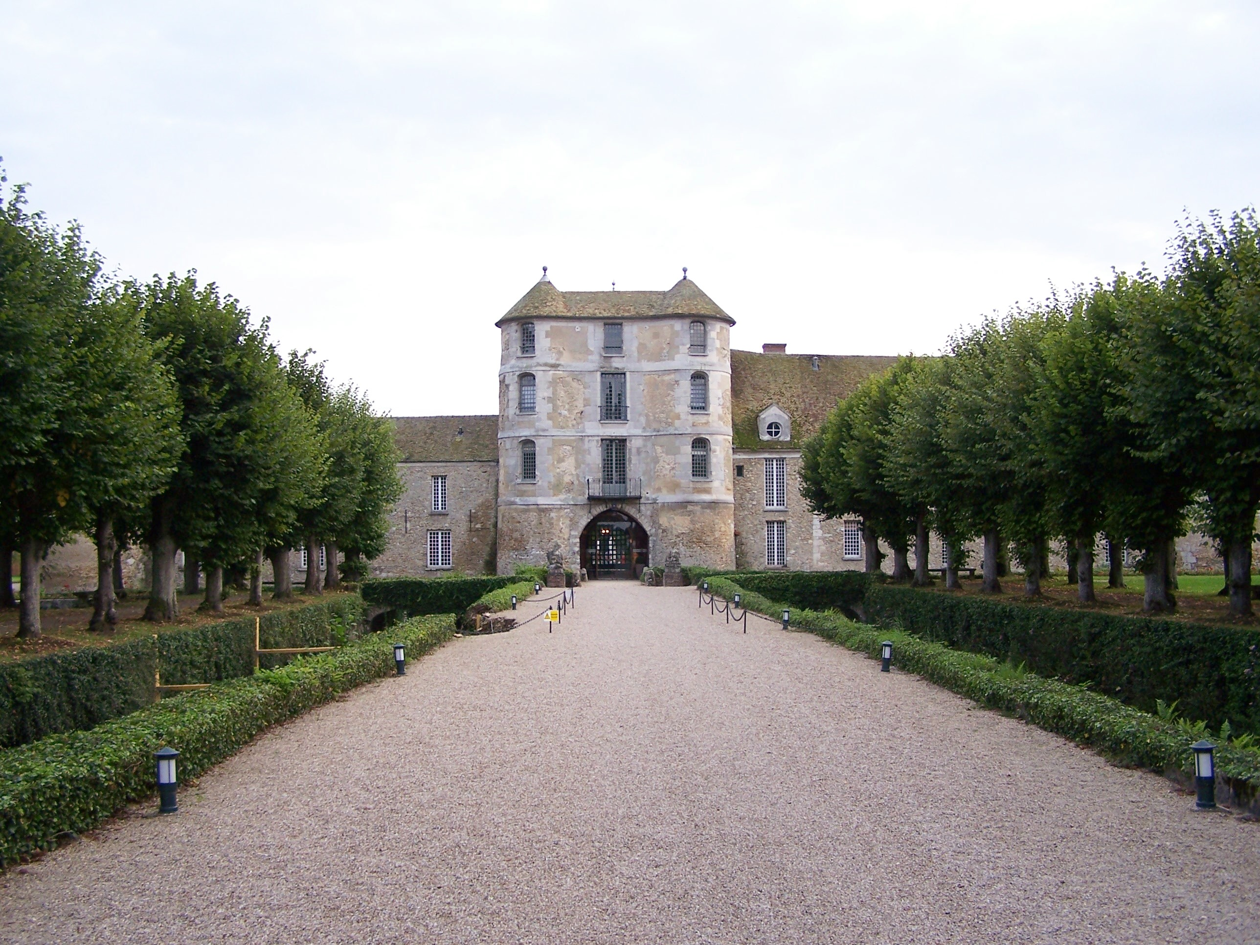 Entrance of the castle of Villiers-le-Mahieu (Yvelines, France)